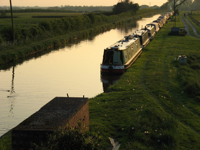 Narrowboats. Narrowboats in the evening sun,at Shebdon.